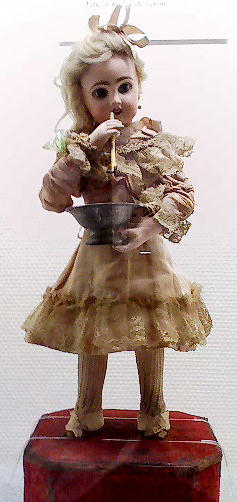 The Automata "Fille a bulle de savon" is on display in the Nosaka Automata Museum, Ito city, Shizuoka prefecture, Japan.